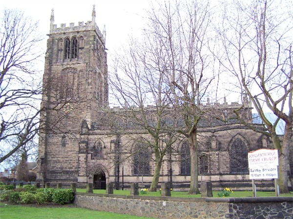 All Saints Church, Loughborough taken by kev747